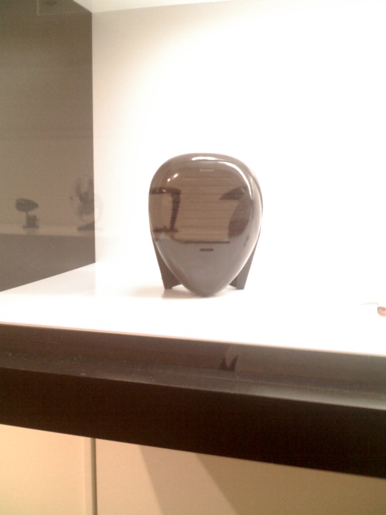 Isamu Noguchi's bakelite Radio Nurse, for Zenith. 1938. "A thing for nurses, who knew?" Part of the American Streamlined Design exhibit at the Montreal Museum of Fine Arts this summer.